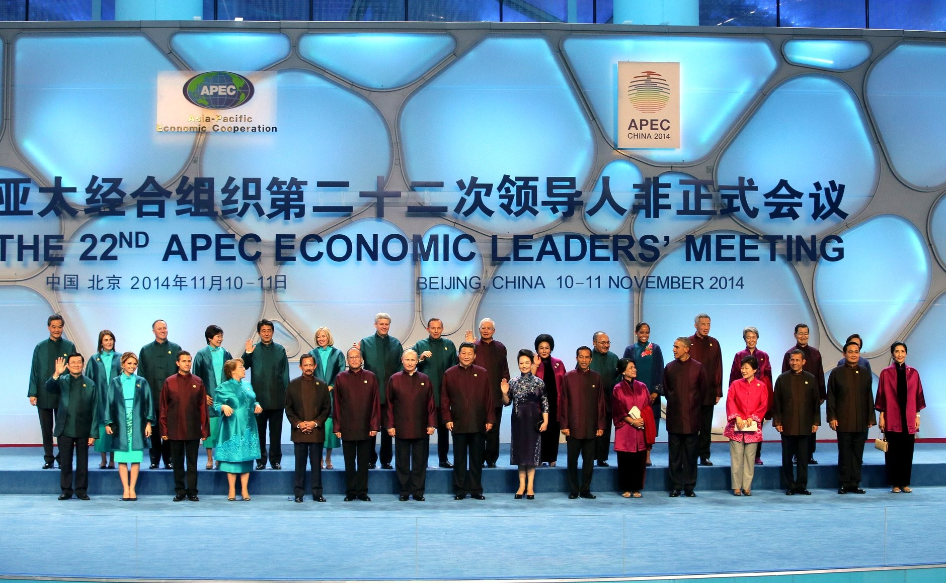 APEC summit joint photo session.